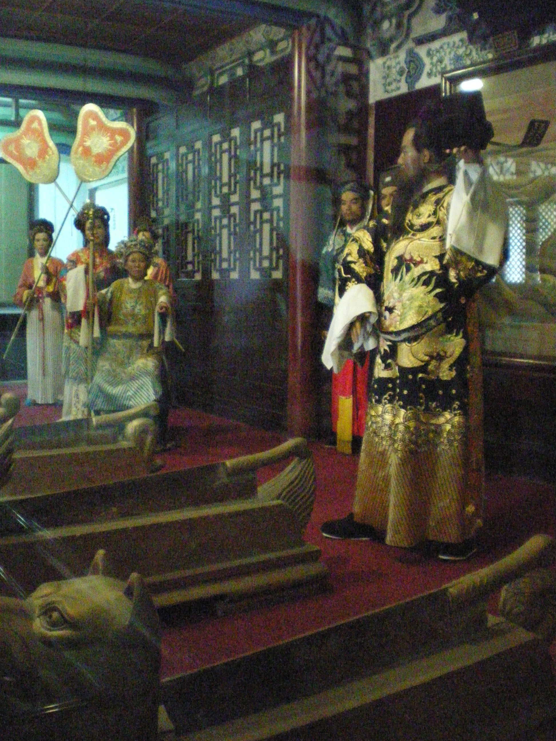 A photo taken in the Lord Bao Memorial Temple dedicated for the Song Dynasty official Bao Zheng, in today's Kaifeng, Henan, China.